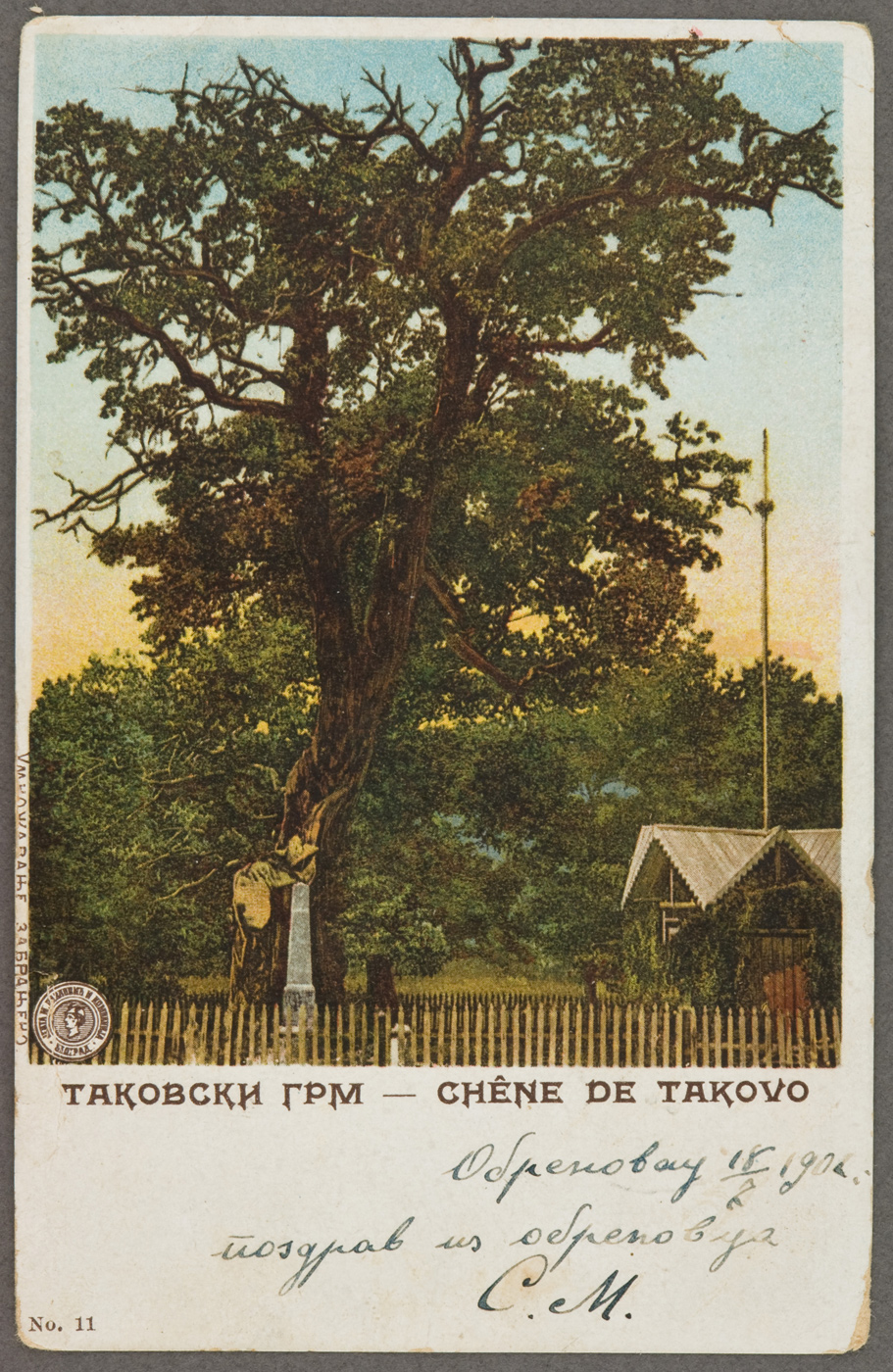 The Takovo's Oak Tree. 1902 (?)